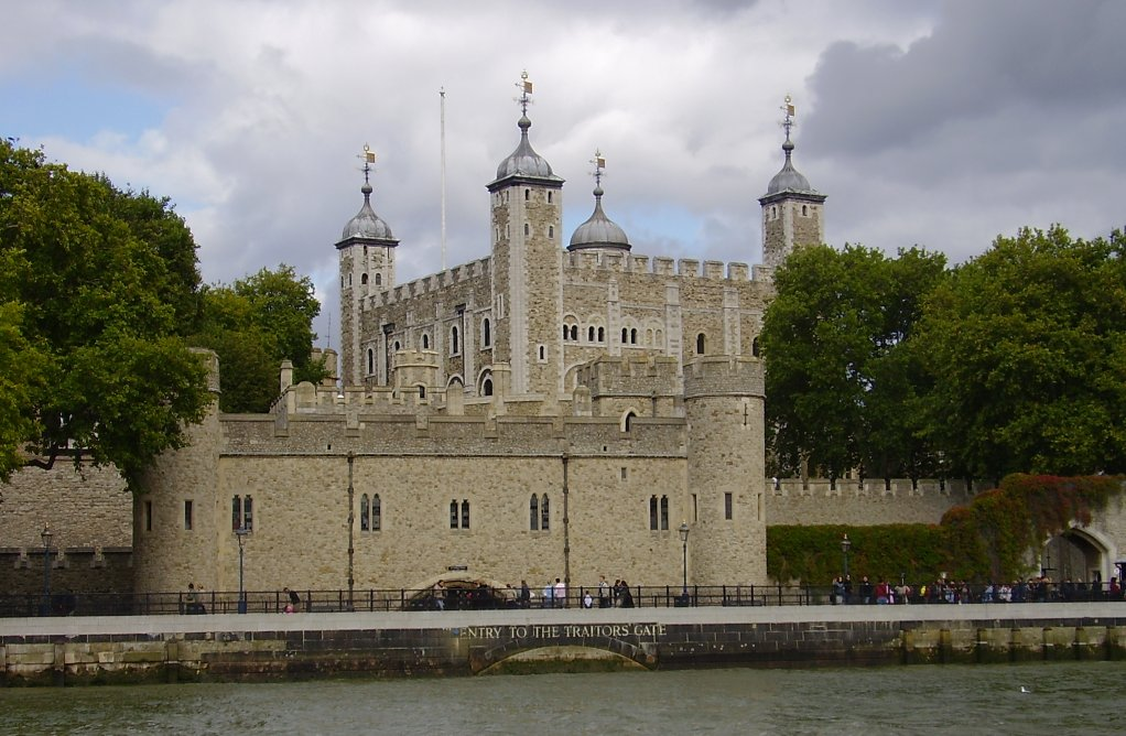 The Tower of London, seen from the Thames River.